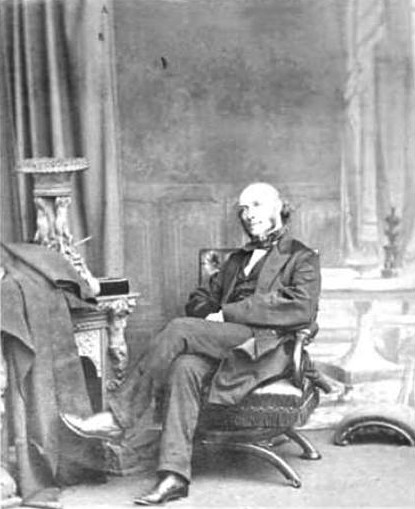 Photograph of Dr. William A. Miller, one of the pioneers of astrochemistry